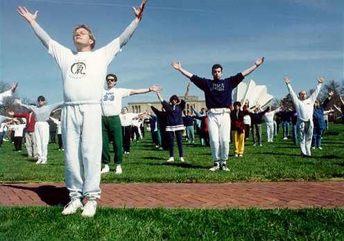 Bill Douglas